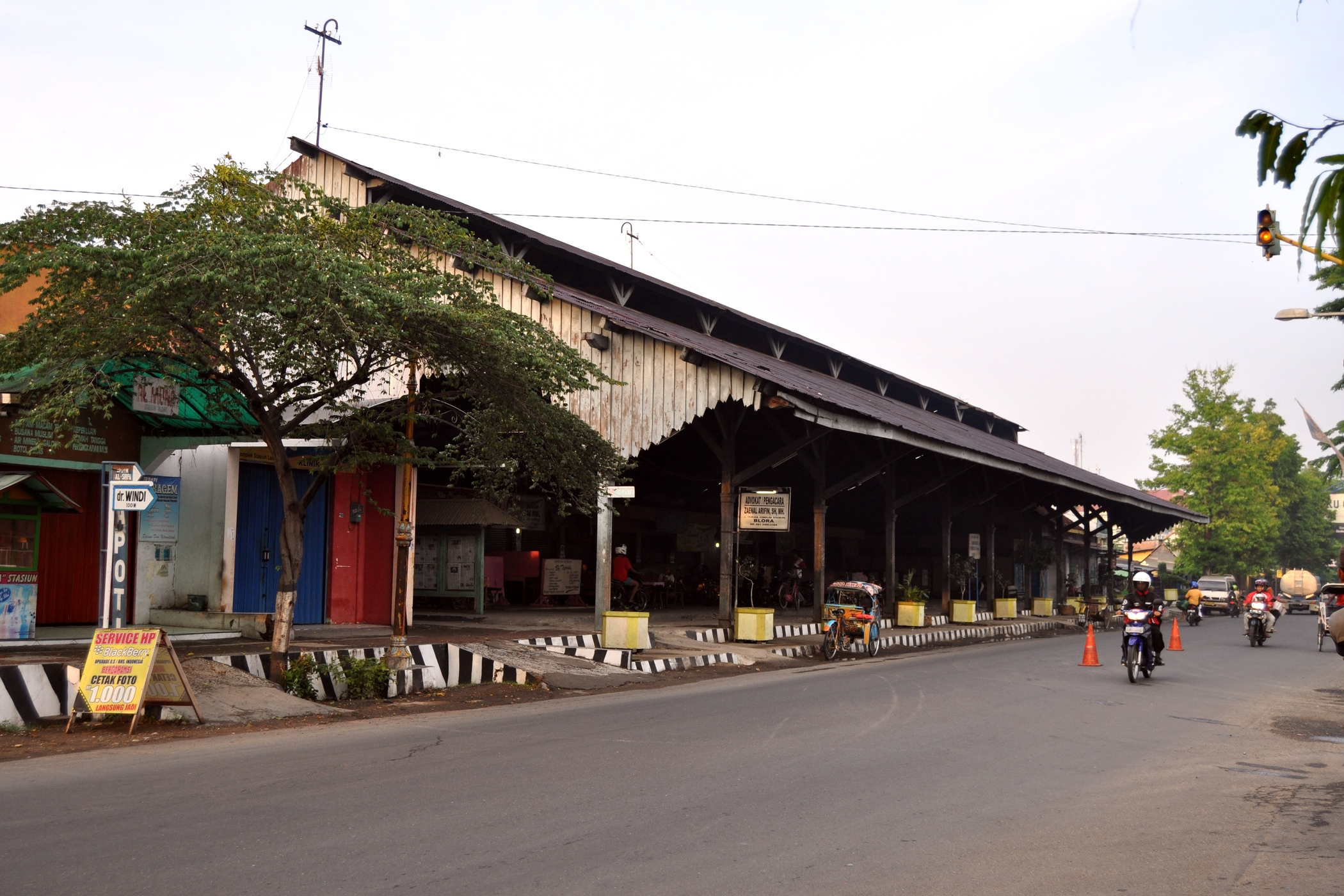 Ex Blora train station, Blora, Central Java; front view.